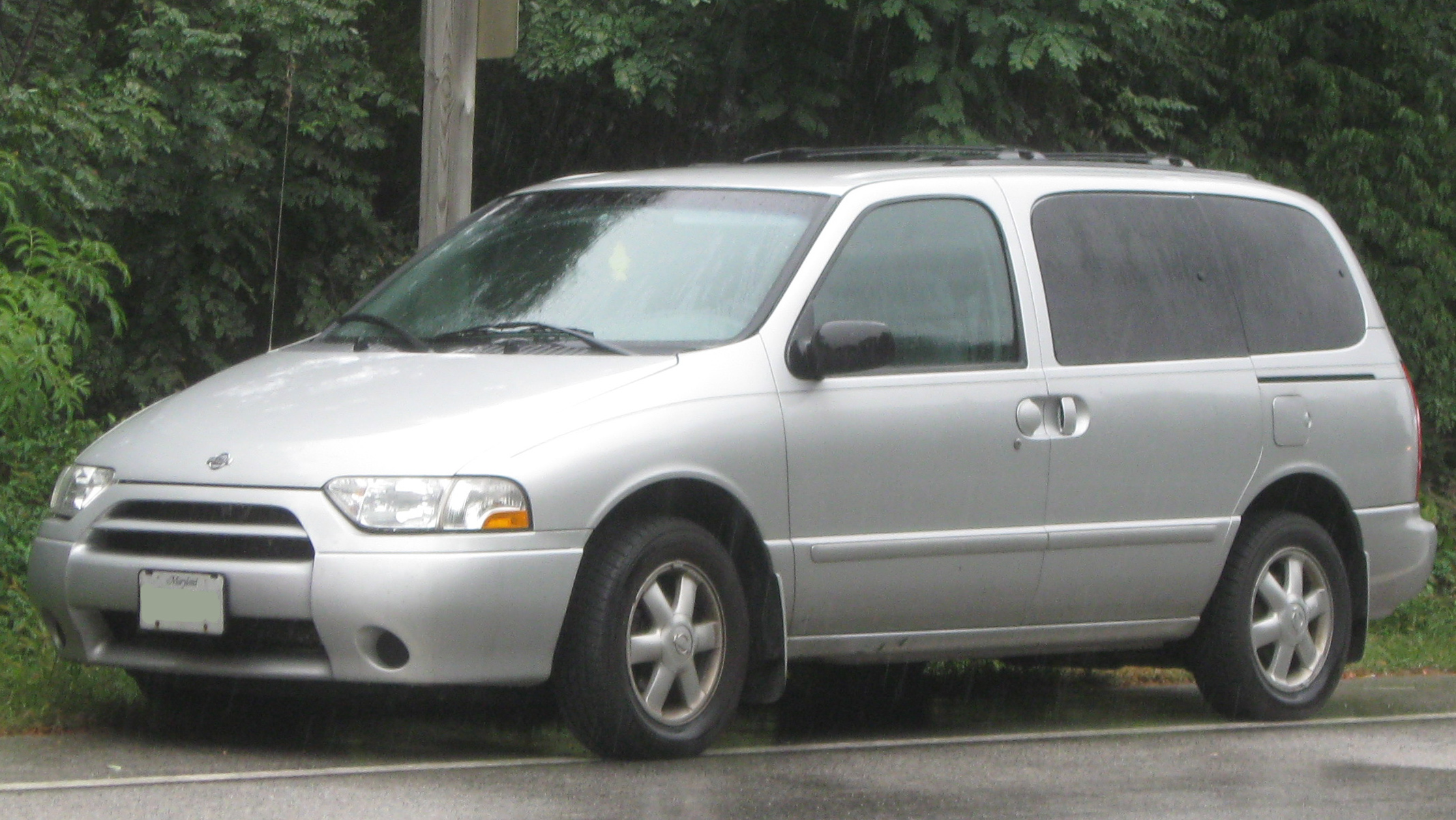 2001-2002 Nissan Quest photographed in College Park, Maryland, USA.